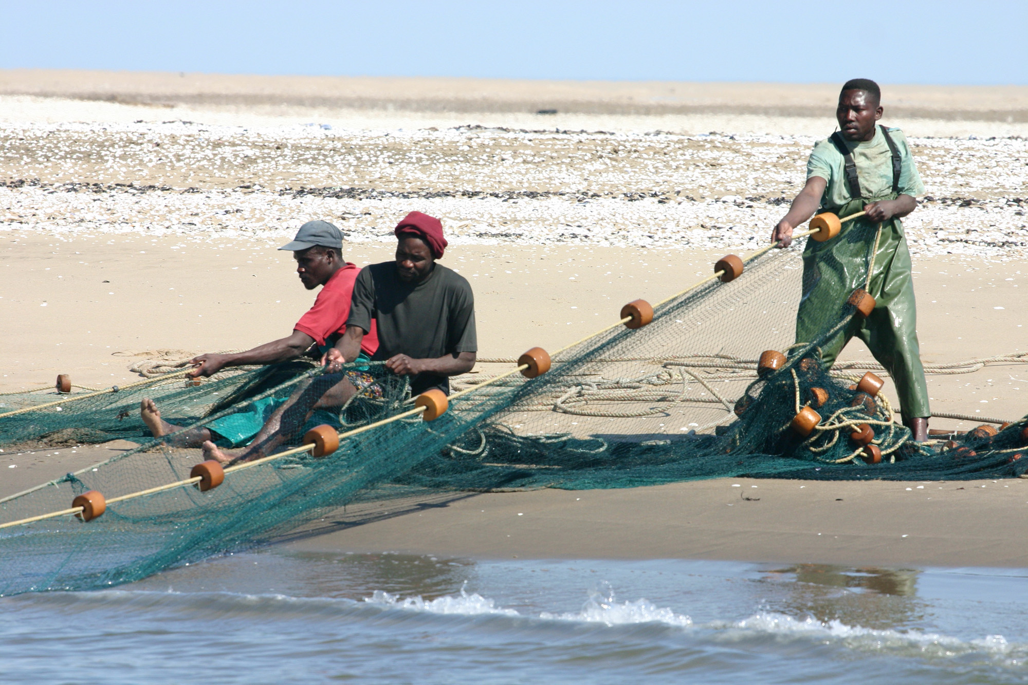 Fishermen in Walvis Bay, Namibia.